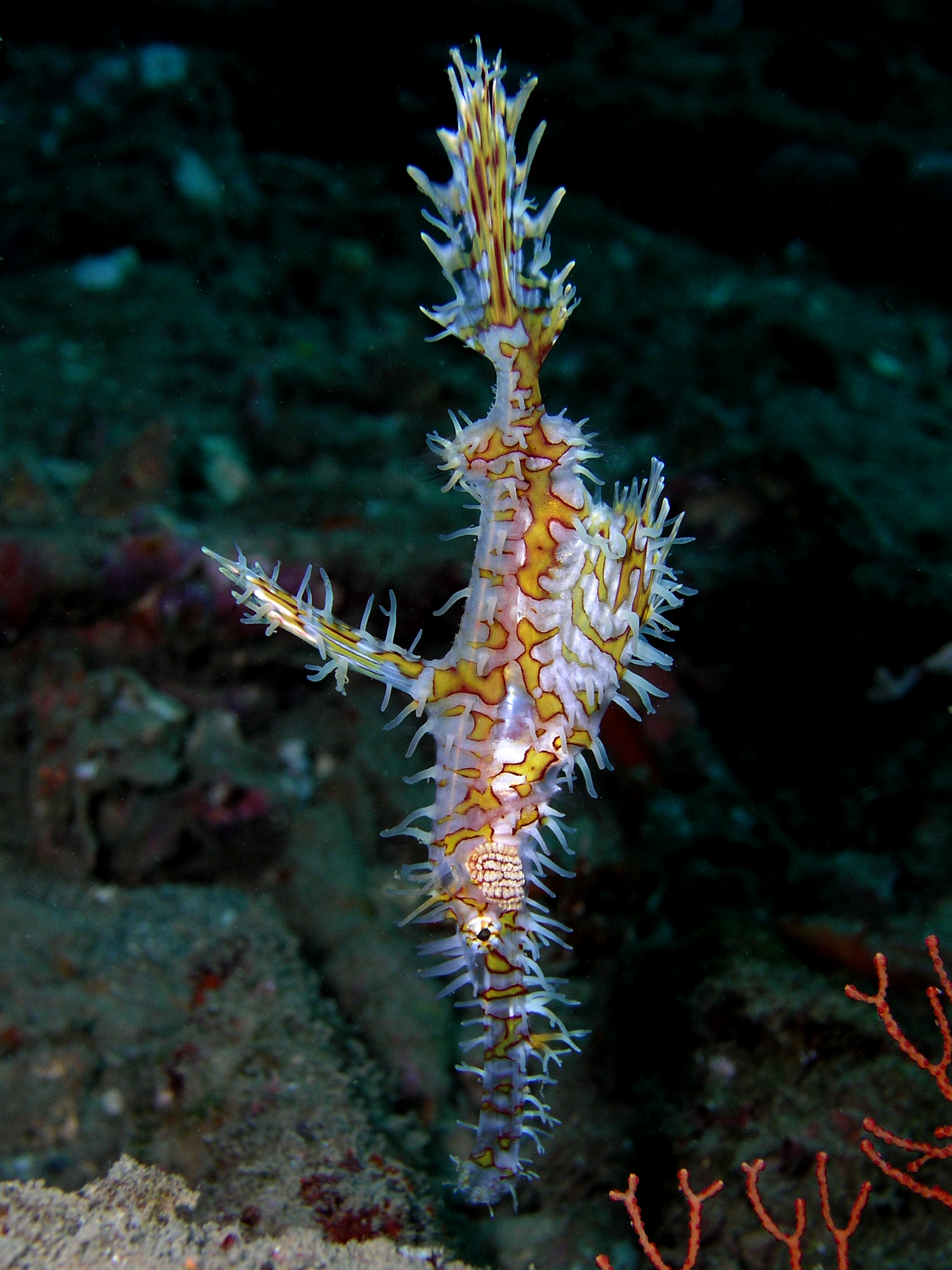 Harlequin ghost pipefish (Solenostomus paradoxus) from East Timor.